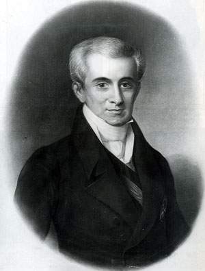 Kapodistria